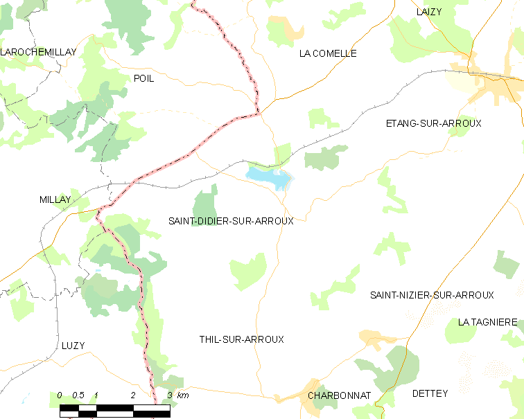 Map of French municipality